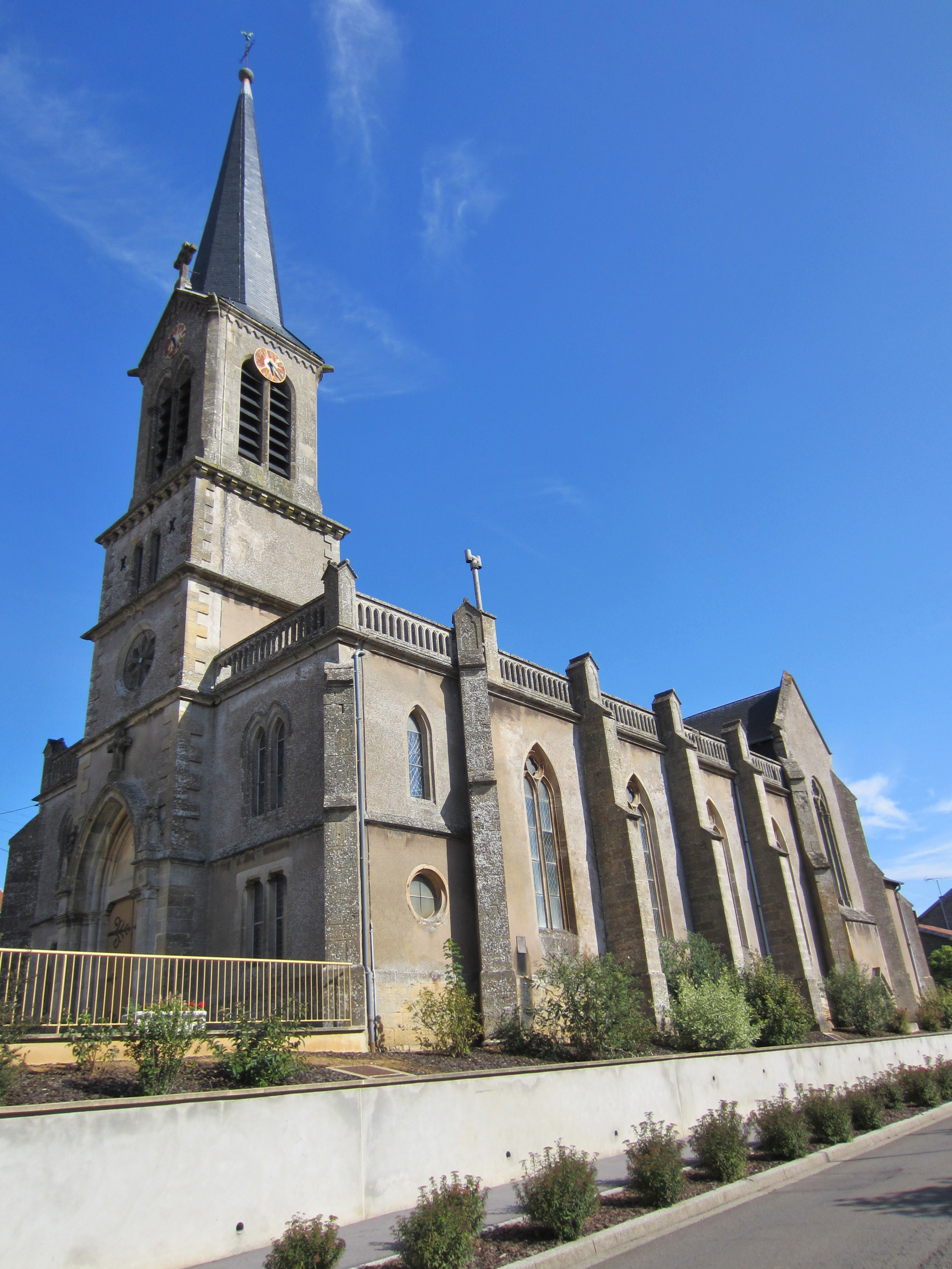 Description eglise saint remy Tiercelet Date16 September 2011Sourcemon appareil photoAuthorAimelaimePermission (Reusing this file) eglise saint remy Tiercelet